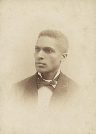 Fredrick McGhee (October 28, 1861 – September 9, 1912), African American civil rights activist and lawyer